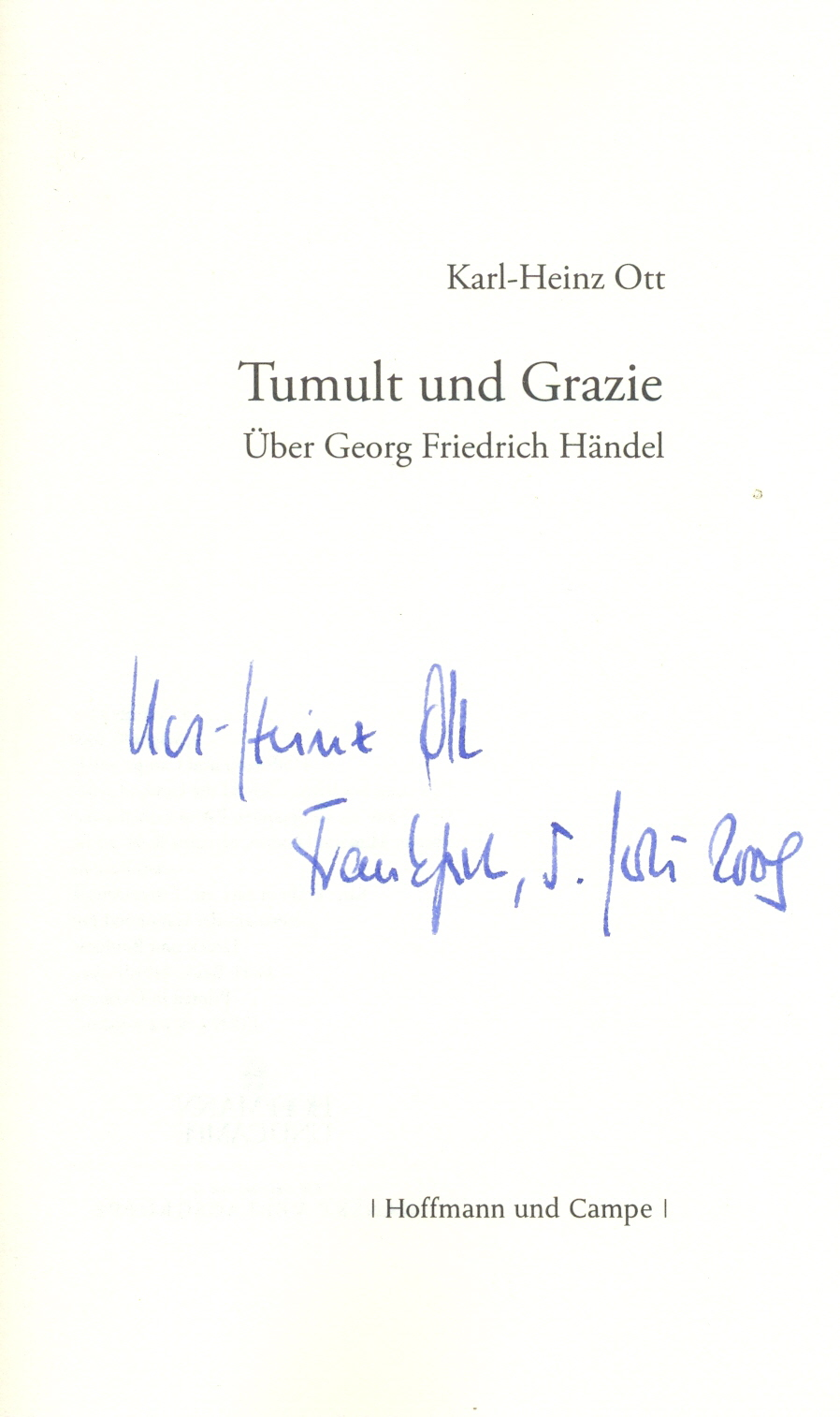 autograph from Karl-Heinz Ott, German dramaturge and writer